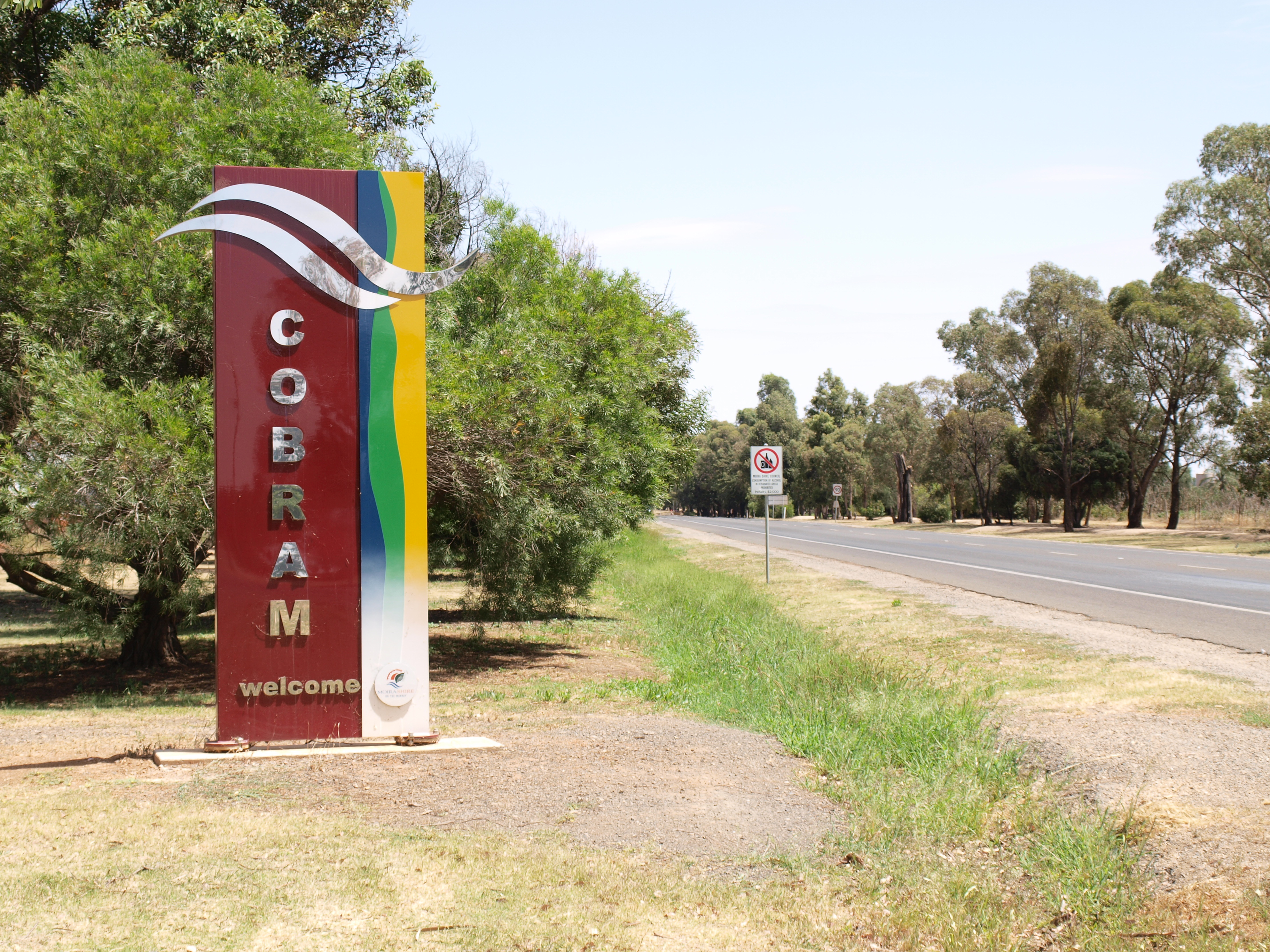 Town sign on Murray Valley Highway.